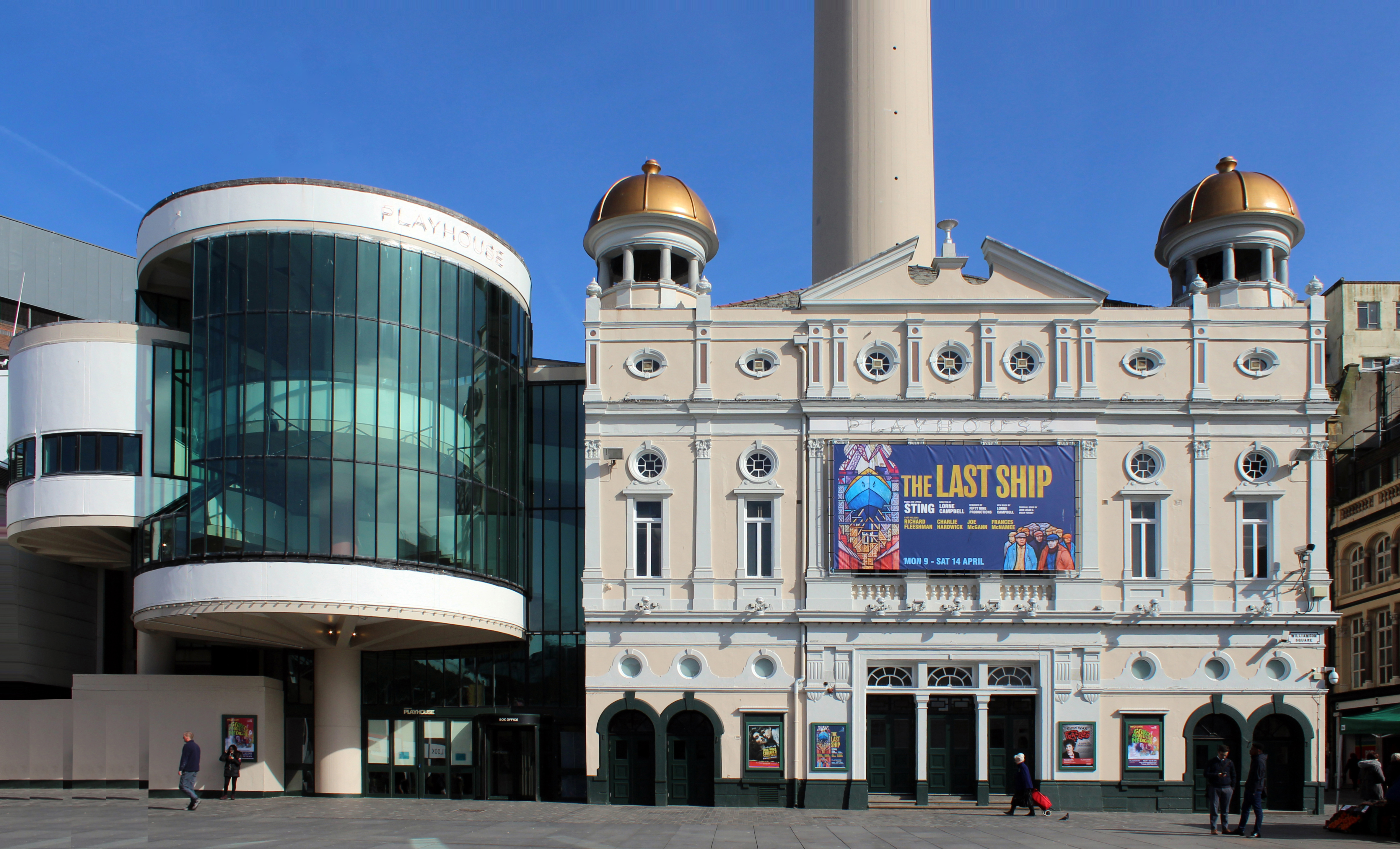 Front elevation of the Grade II* listed Playhouse Theatre, Williamson Square, Liverpool, dating to 1868. Internal alterations in 1912 and extended to left in modern style c. 1967.